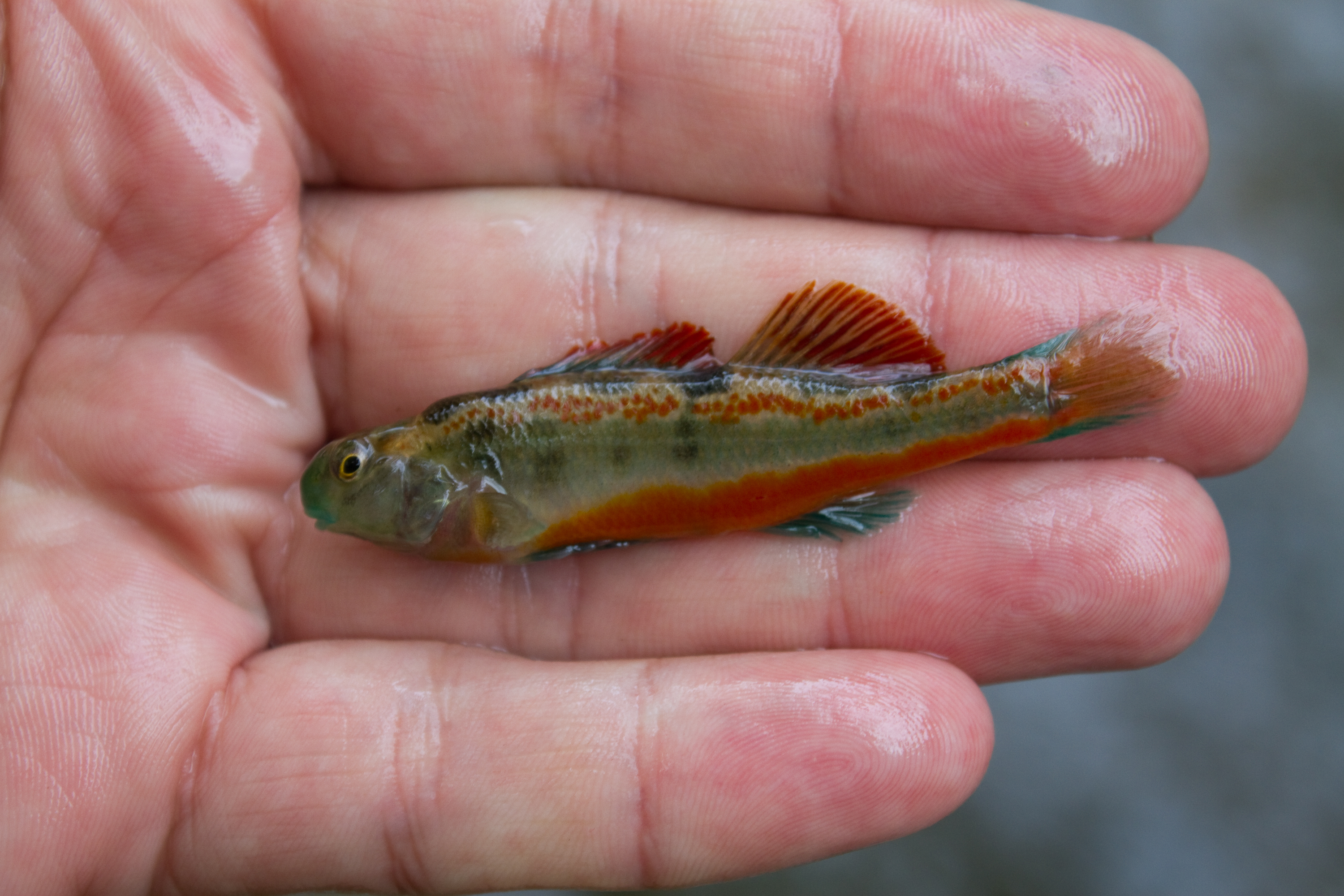 Etheostoma simoterum, Appalachian Mountains, United States